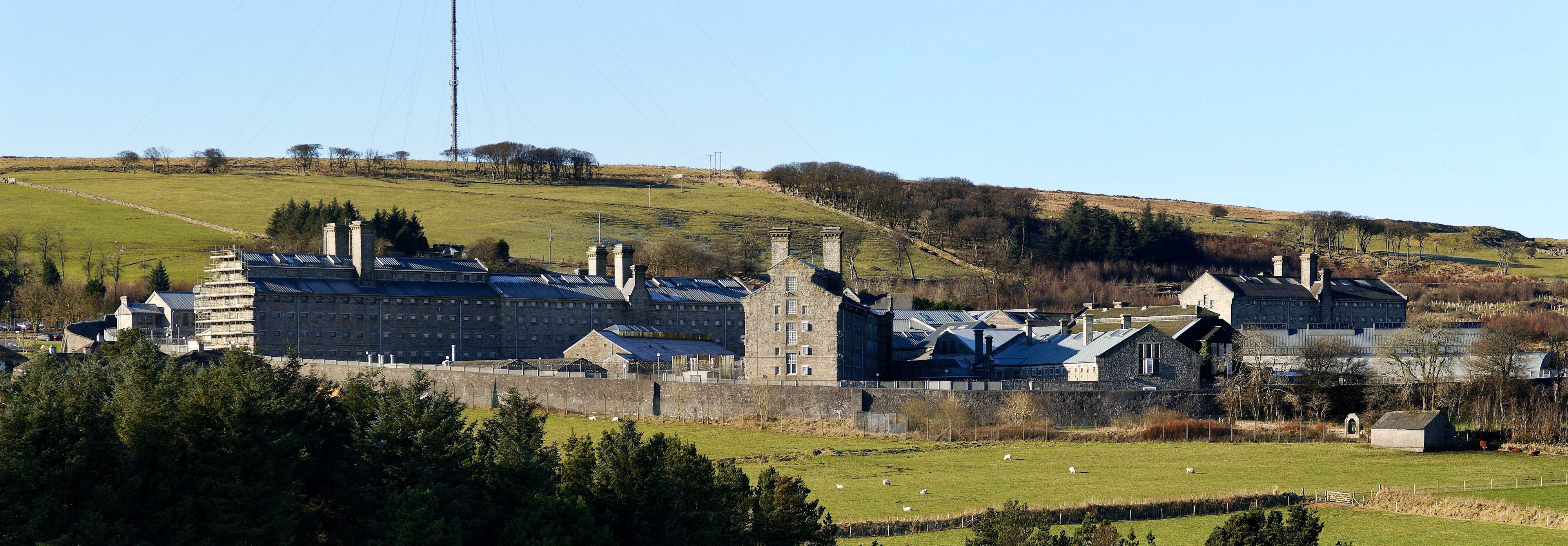 A stitch showing Dartmoor prison at Princetown in Devon.